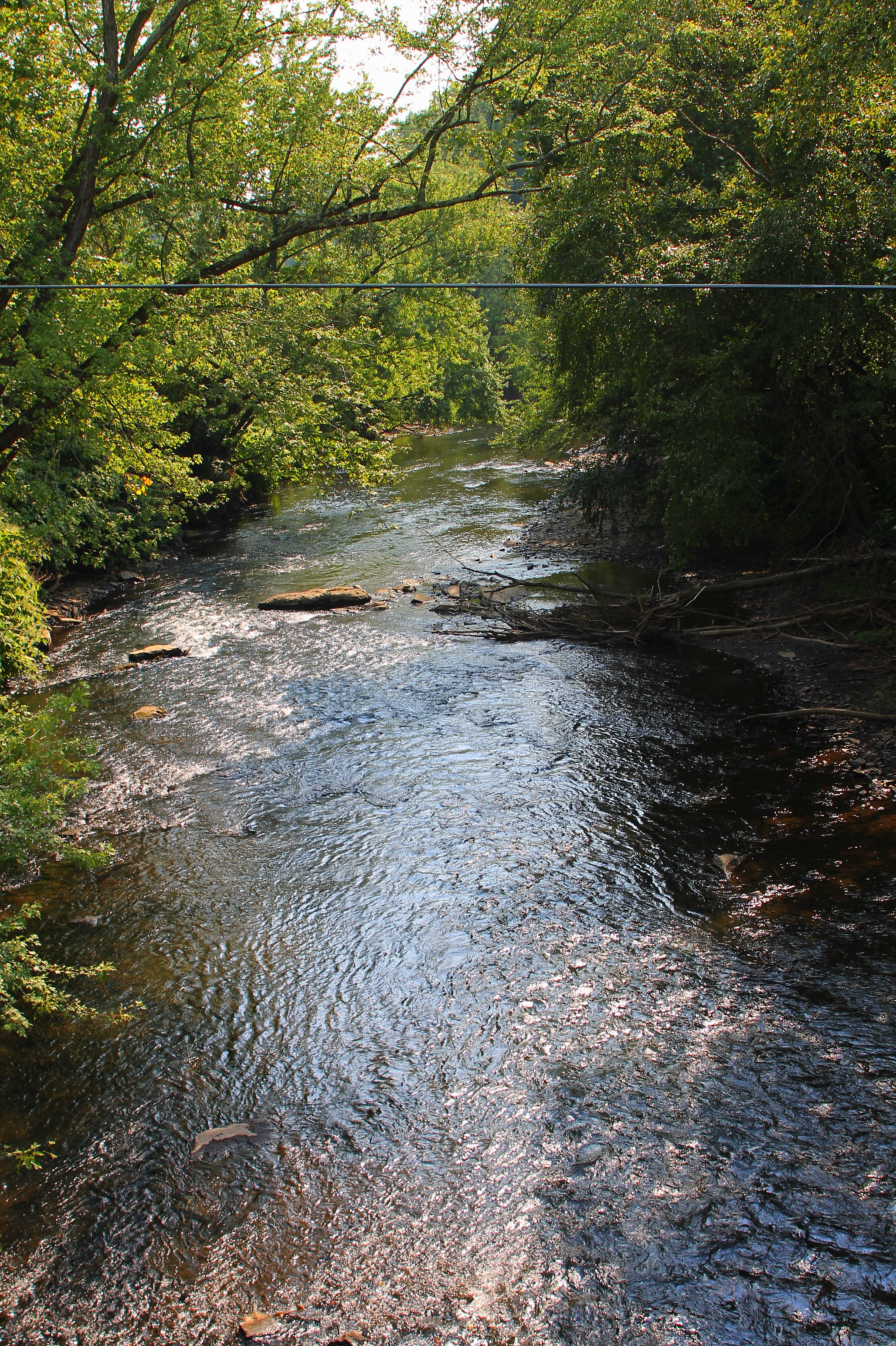 Mahanoy Creek looking downstream near its mouth, from Pennsylvania Route 147